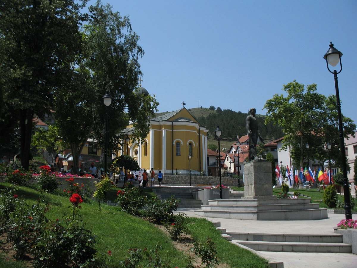 Center of Raška (orienteering competion was held in town that day) with church of saint Archangel Gabriel,Serbia.